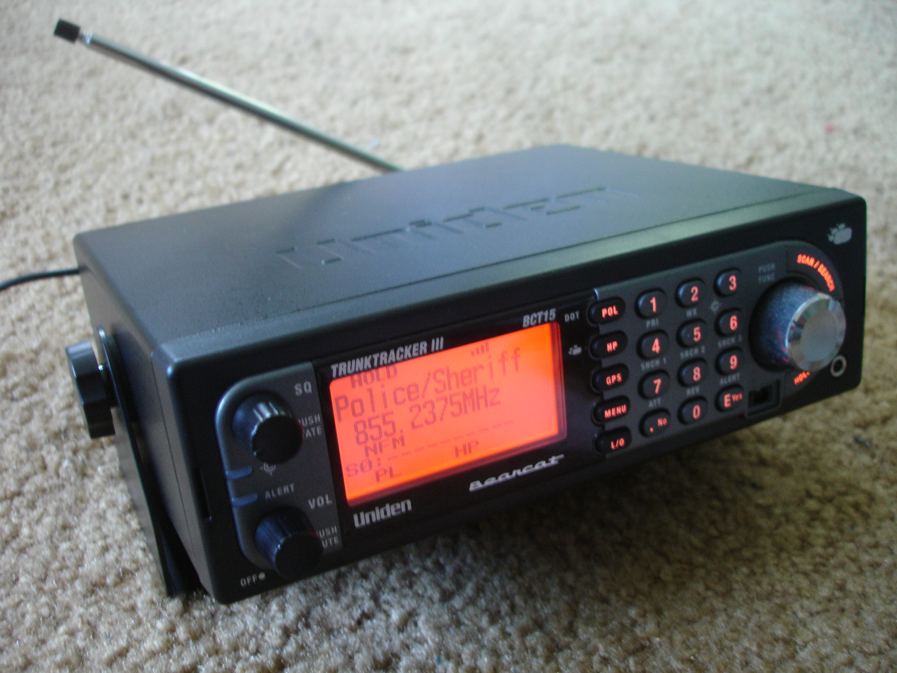 Uniden BCT-15 scanner in its mounting bracket, illuminated. The BCD996T is similar in appearance.